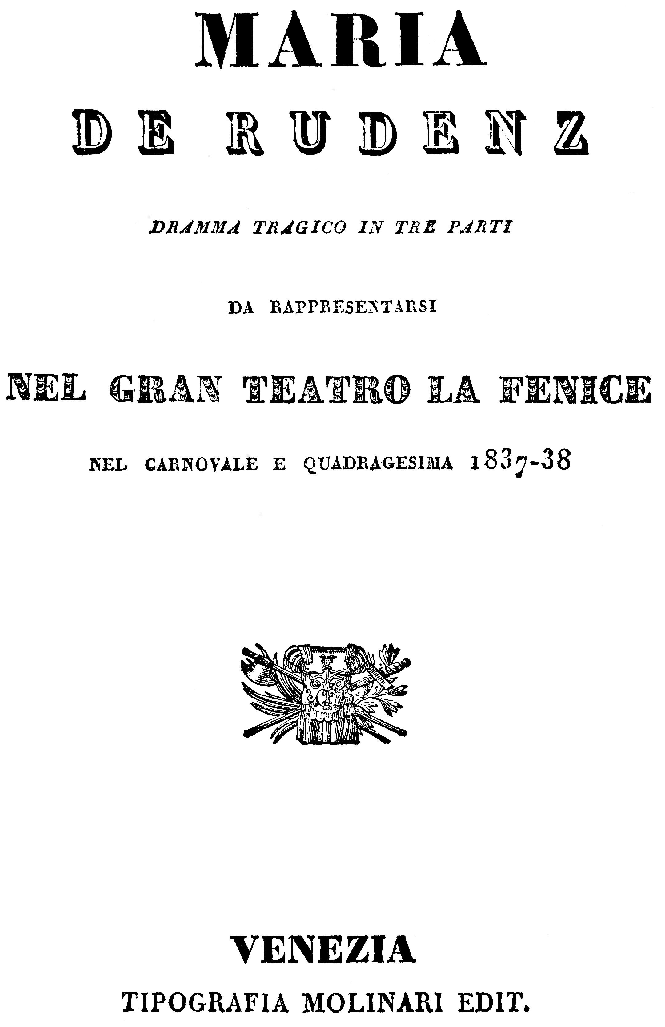 Gaetano Donizetti - Maria de Rudenz - title page of the libretto - Venice 1838